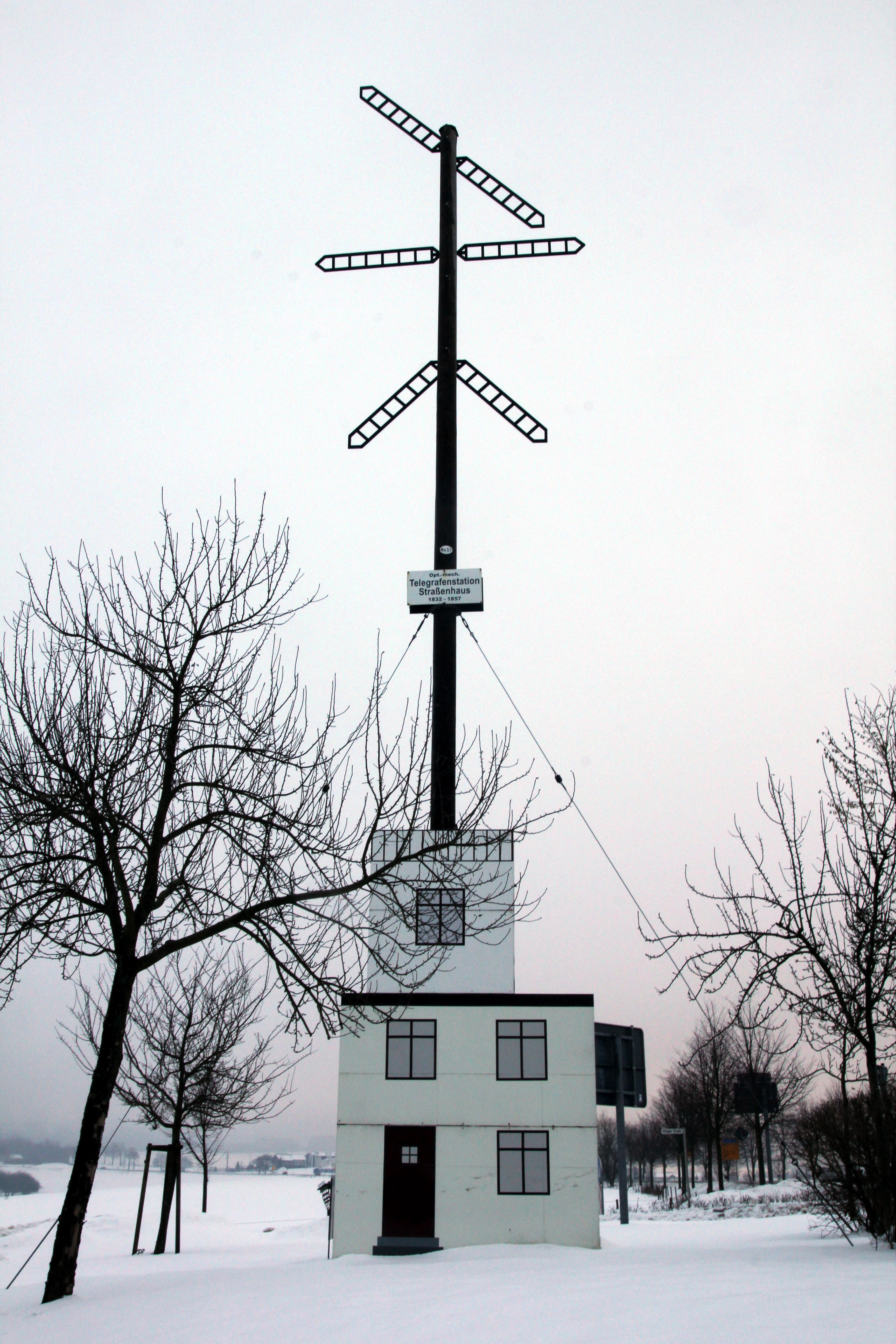 Prusian Optical Telegraph in Straßenhaus, Germany